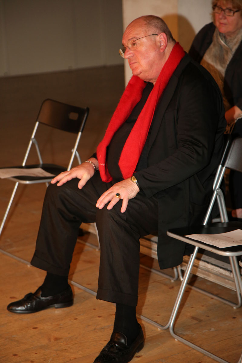 listening to his music